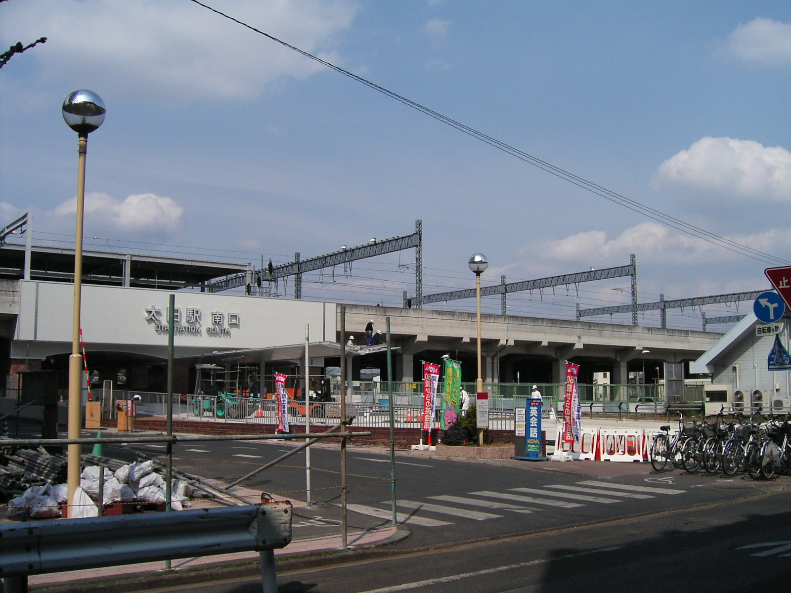 Ota station in Ota city, Gunma pref, Japan 太田駅 南口（東武伊勢崎線）